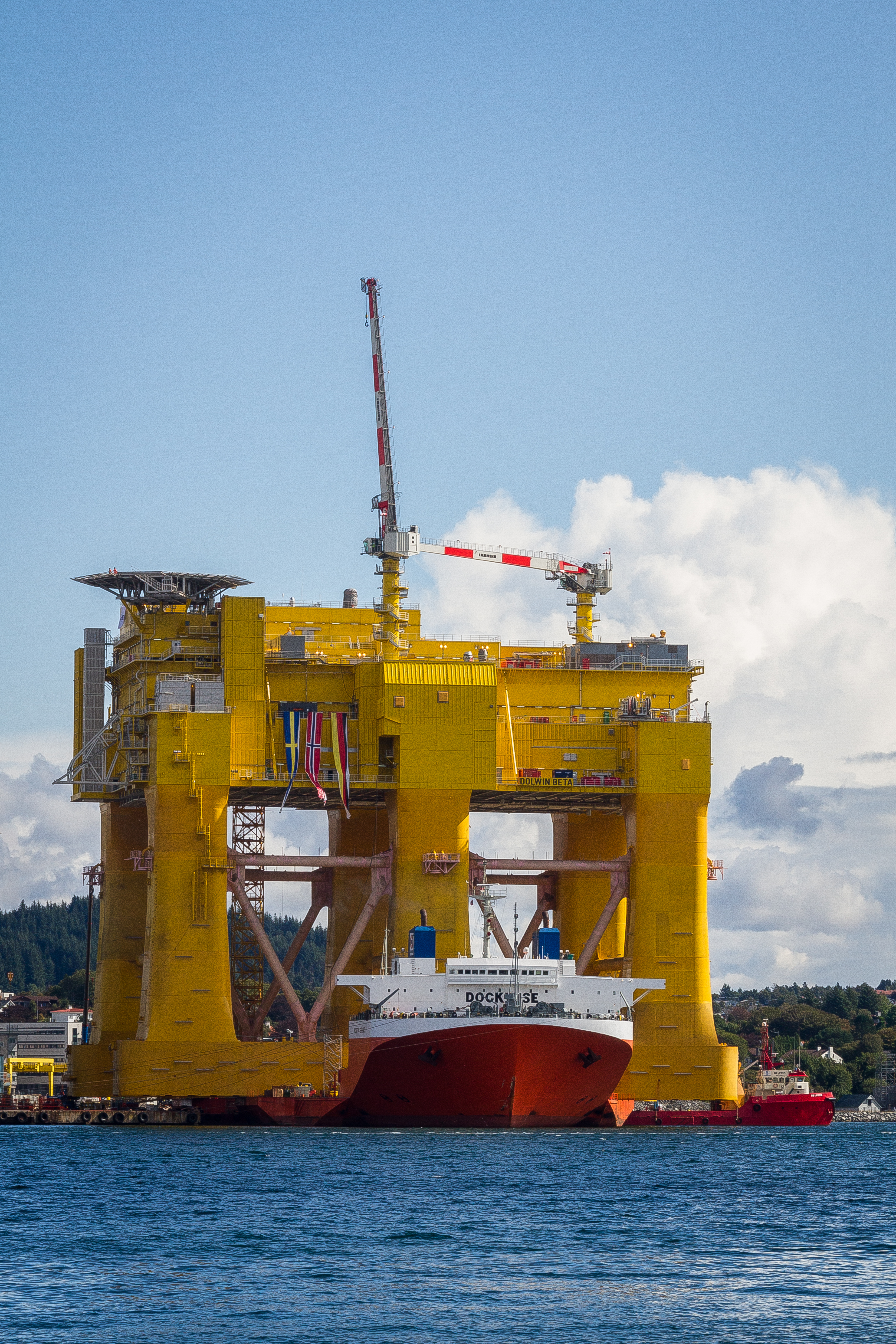 Mighty Servant 1 heavy-lift ship transporting DolWin beta offshore HVDC converter platform at Haugesund, Norway. Not that it is such a great shot in its own right, but I just had to take a picture of this! It is right outside my doorstep. Viewed from my house on the Karmøy island towards east and the city of Haugesund. No - I am not playing with perspective or anything here. That ship (Mighty Servant 1) IS actually carrying this huge structure. The project is a cooperation between Aibel Norway and ABB. The structure itself has been built in Dubai, and is now at the Aibel yard in Haugesund for final equipment installations and testing. It has a capacity of 900 MW and will receive power from 240 wind turbines in the North Sea from Q2 2015.